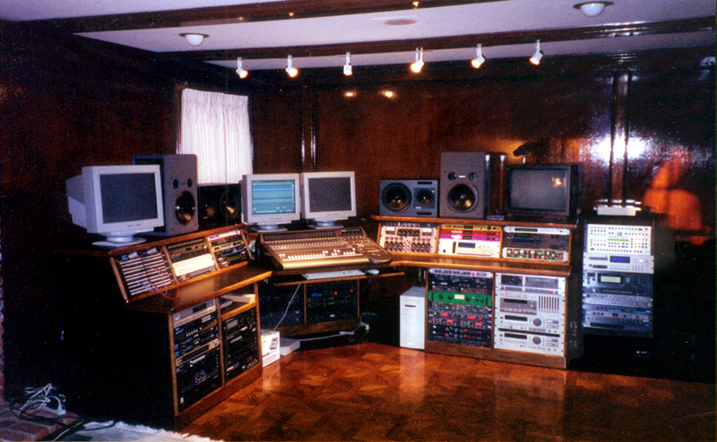 Yury Chernavsky, Bel Air House production studios, LA, US